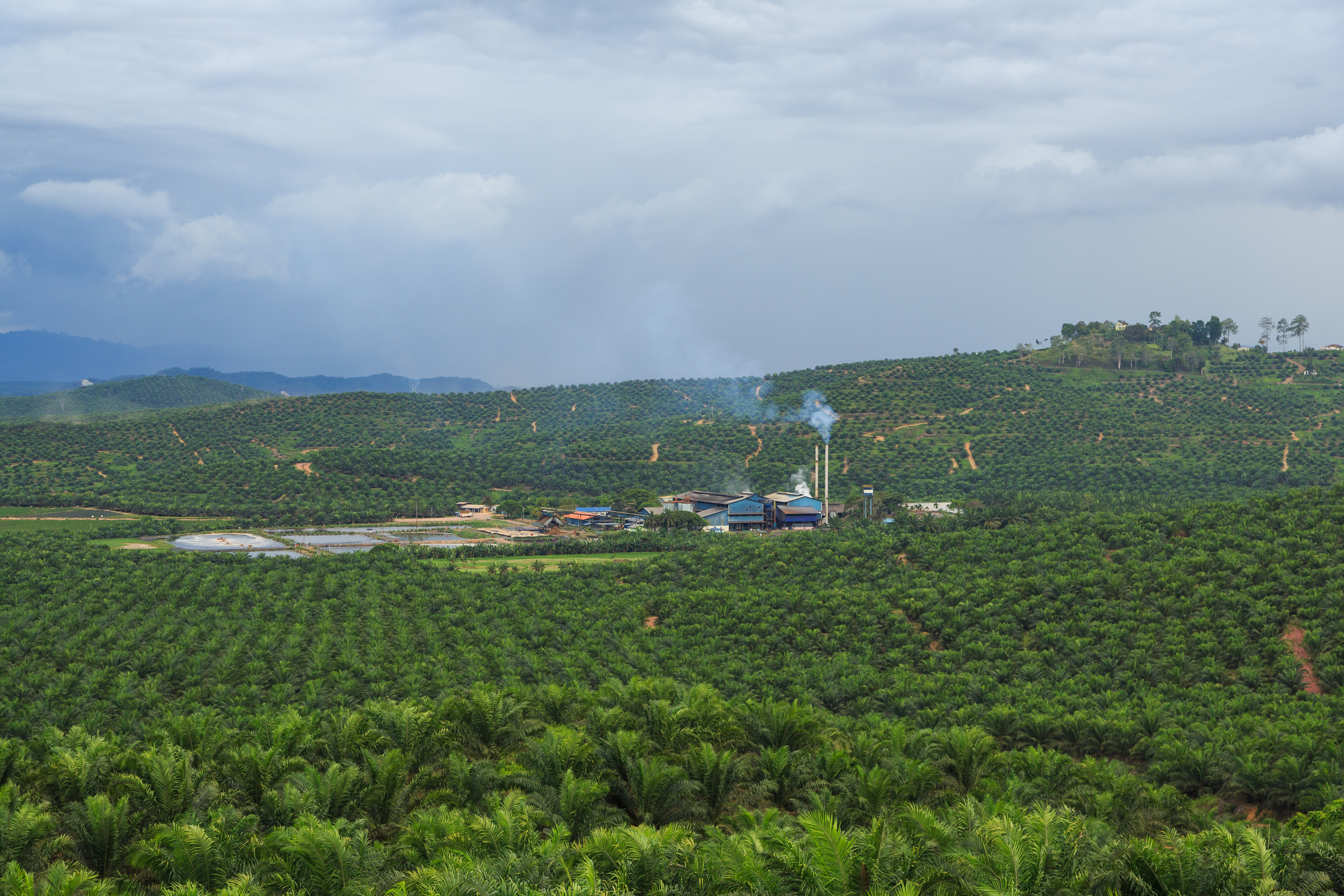 Kunak District, Sabah, Malaysia: IOI Baturong Palm Oil Mill